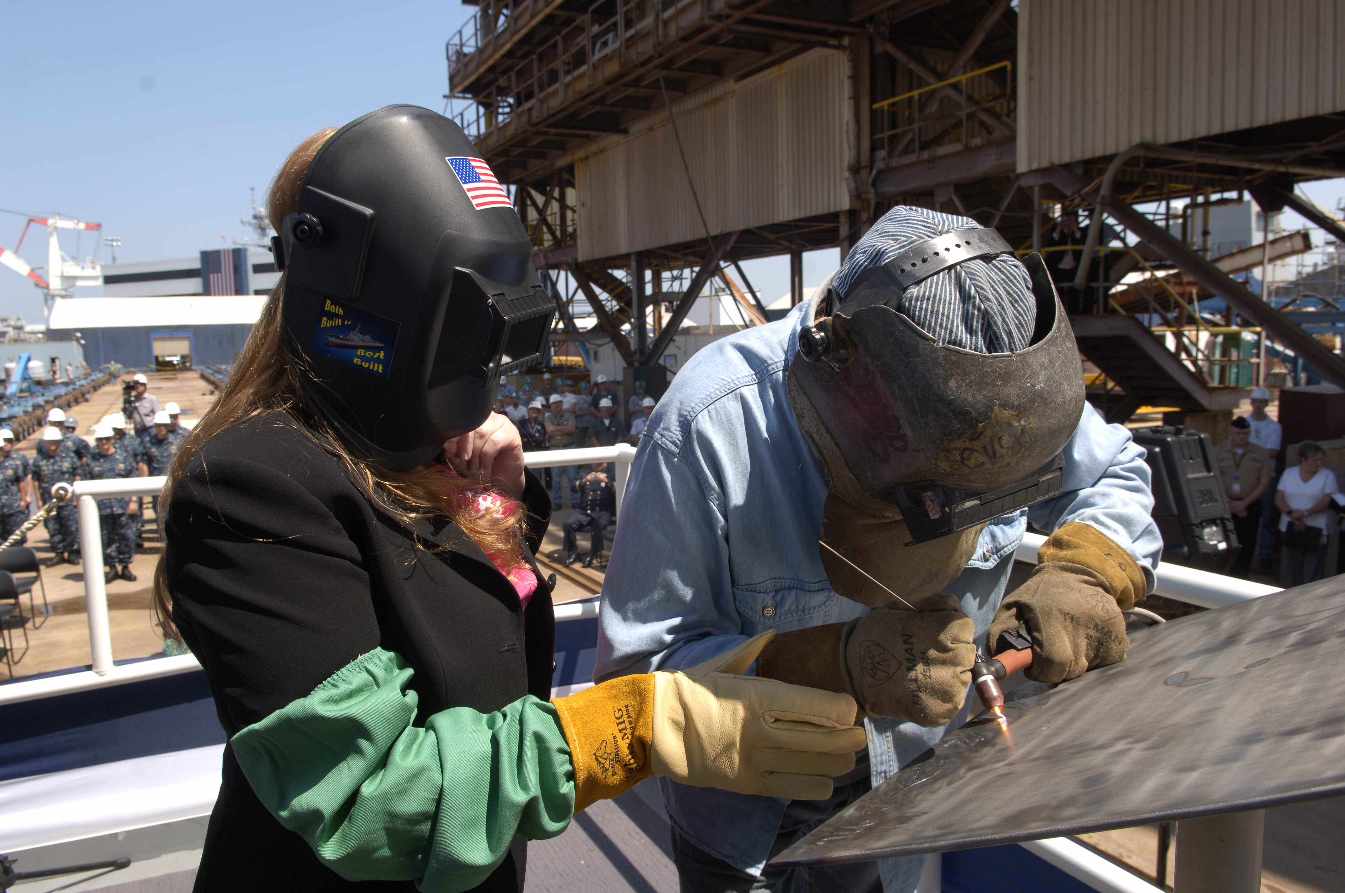 BATH, Maine, (June 18, 2010) Maureen Murphy, left, and Edwin Bard inscribe the signatures of Lt. (SEAL) Michael Murphy's family on an iron plate during a dedication ceremony for Pre-Commissioning Unit (PCU) Michael Murphy (DDG 112). The iron plate will be affixed to the ship's hull during construction. Murphy was posthumously awarded the Medal of Honor for his actions during Operation Red Wings in Afghanistan in June 2005. He was the first Sailor awarded the Medal of Honor since the Vietnam War. (U.S. Navy photo by Mass Communication Specialist 2nd Class Dale Patrick B. Frost/Released)